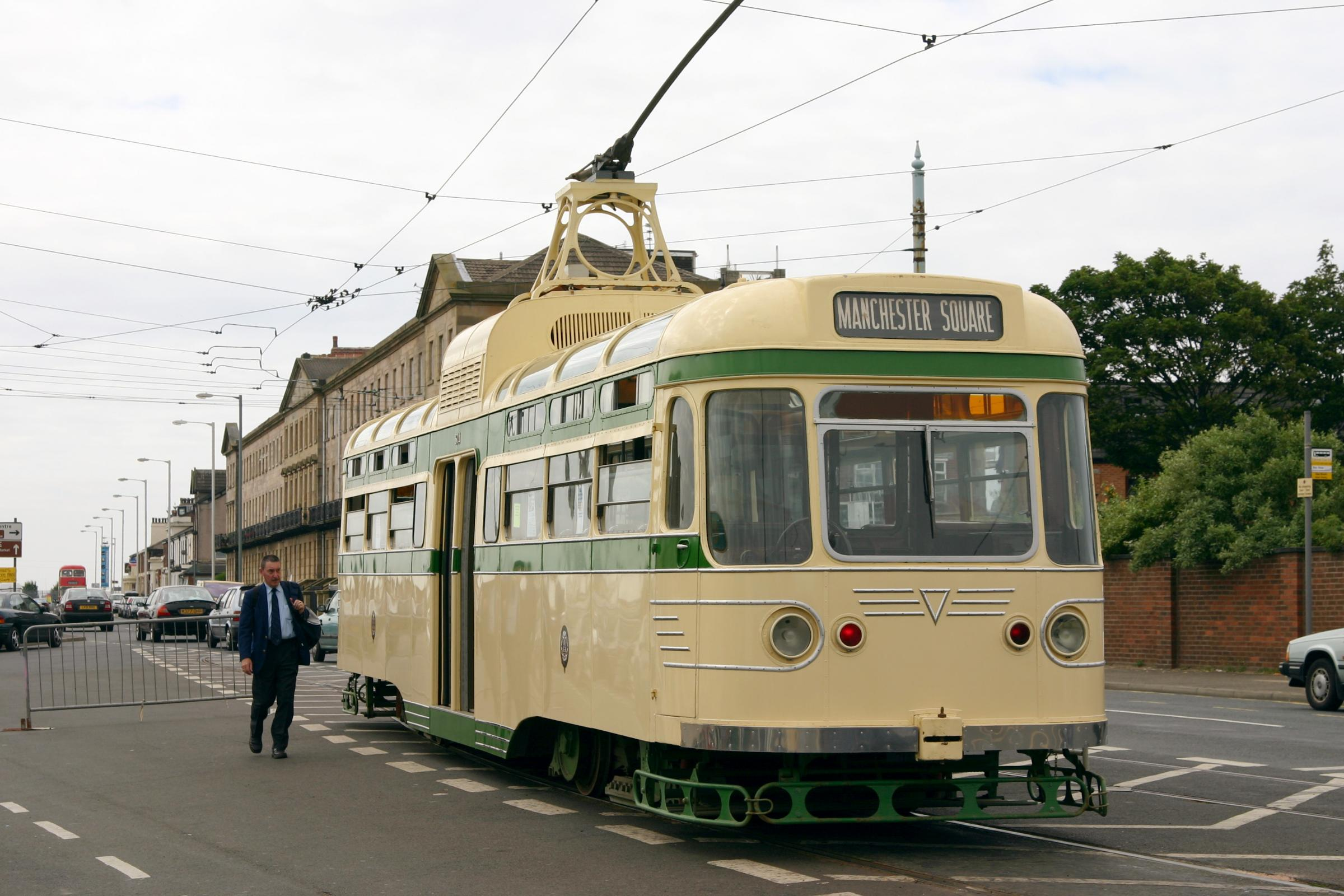 Preserved Coronation tram 304 at Fleetwood. Author: Mark S Jobling